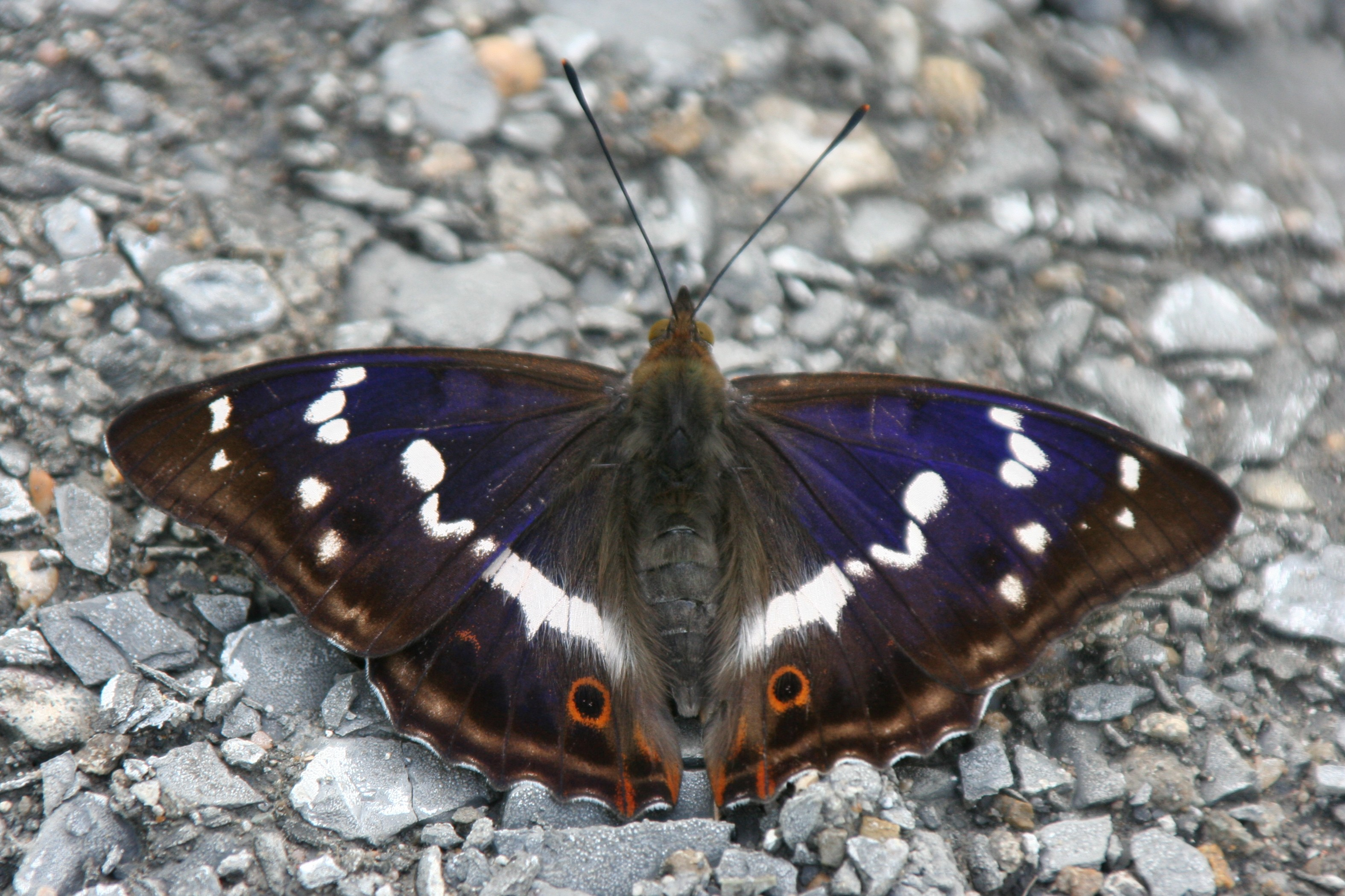 A male Purple Emperor (Apatura iris), photographed in Weinsberg